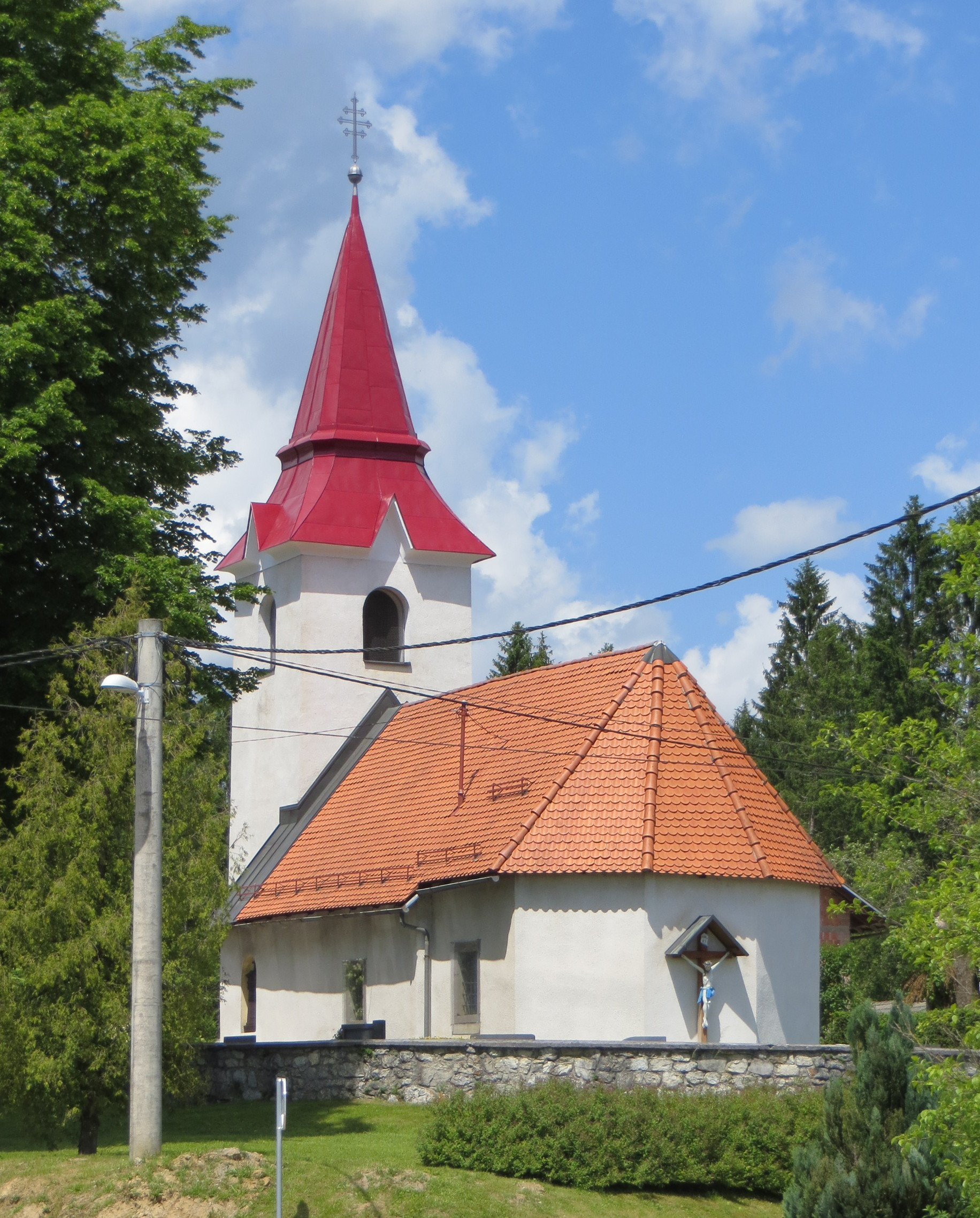 Saint Mary Magdalene Church in Klinja Vas, Municipality of Kočevje, Slovenia